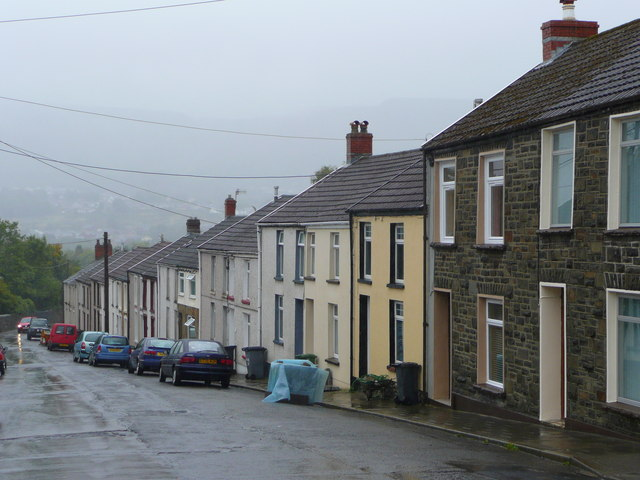 Gwawr Street, Aberaman Miners' cottages ascending the hillside of the Cynon valley south of Aberdare.